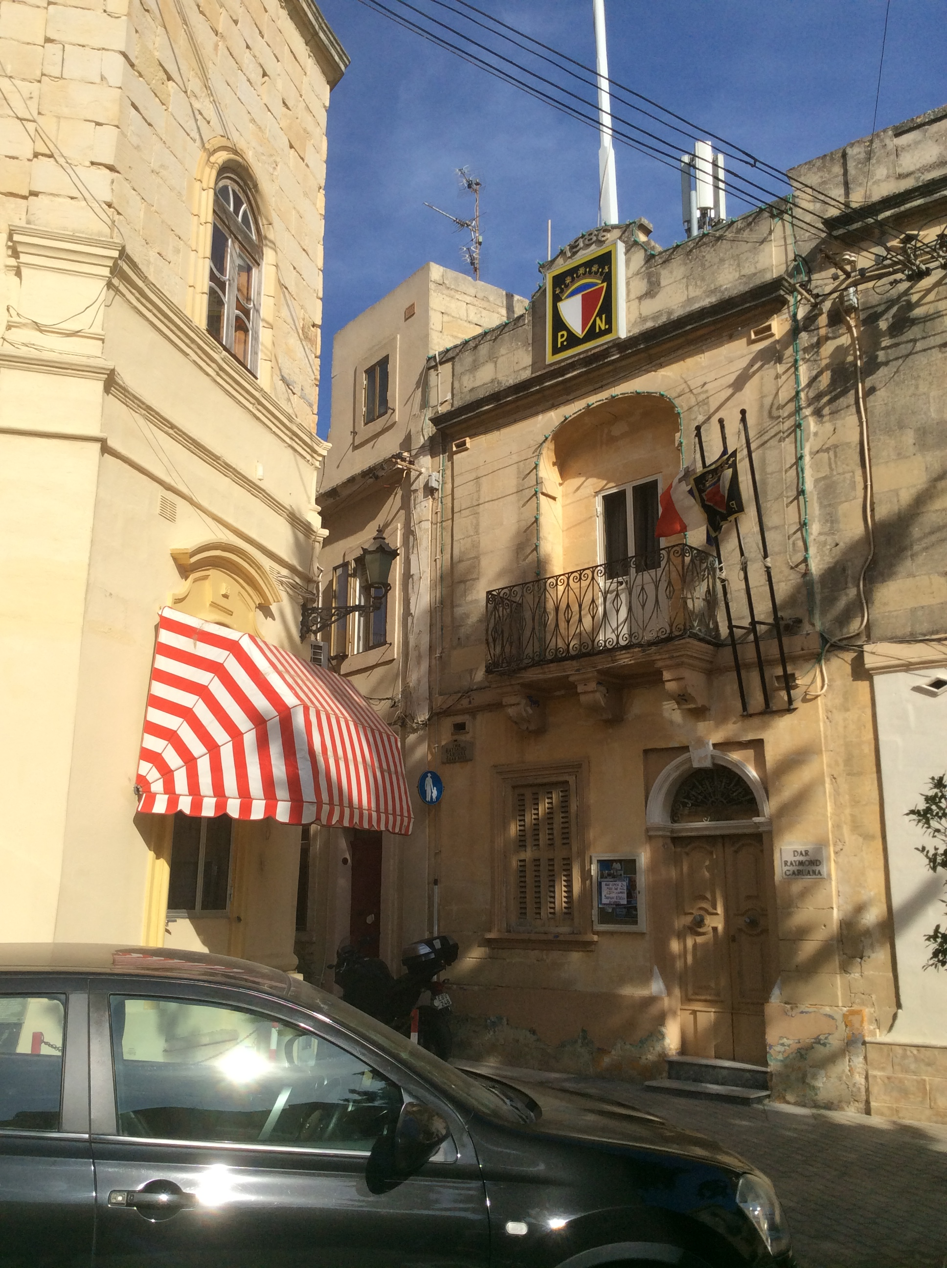 Architecture in Gudja